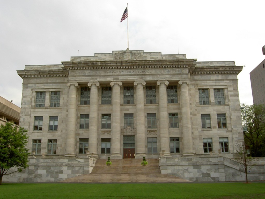 Harvard Medical School Gordon Hall of Medicine on the Medical School Quadrangle